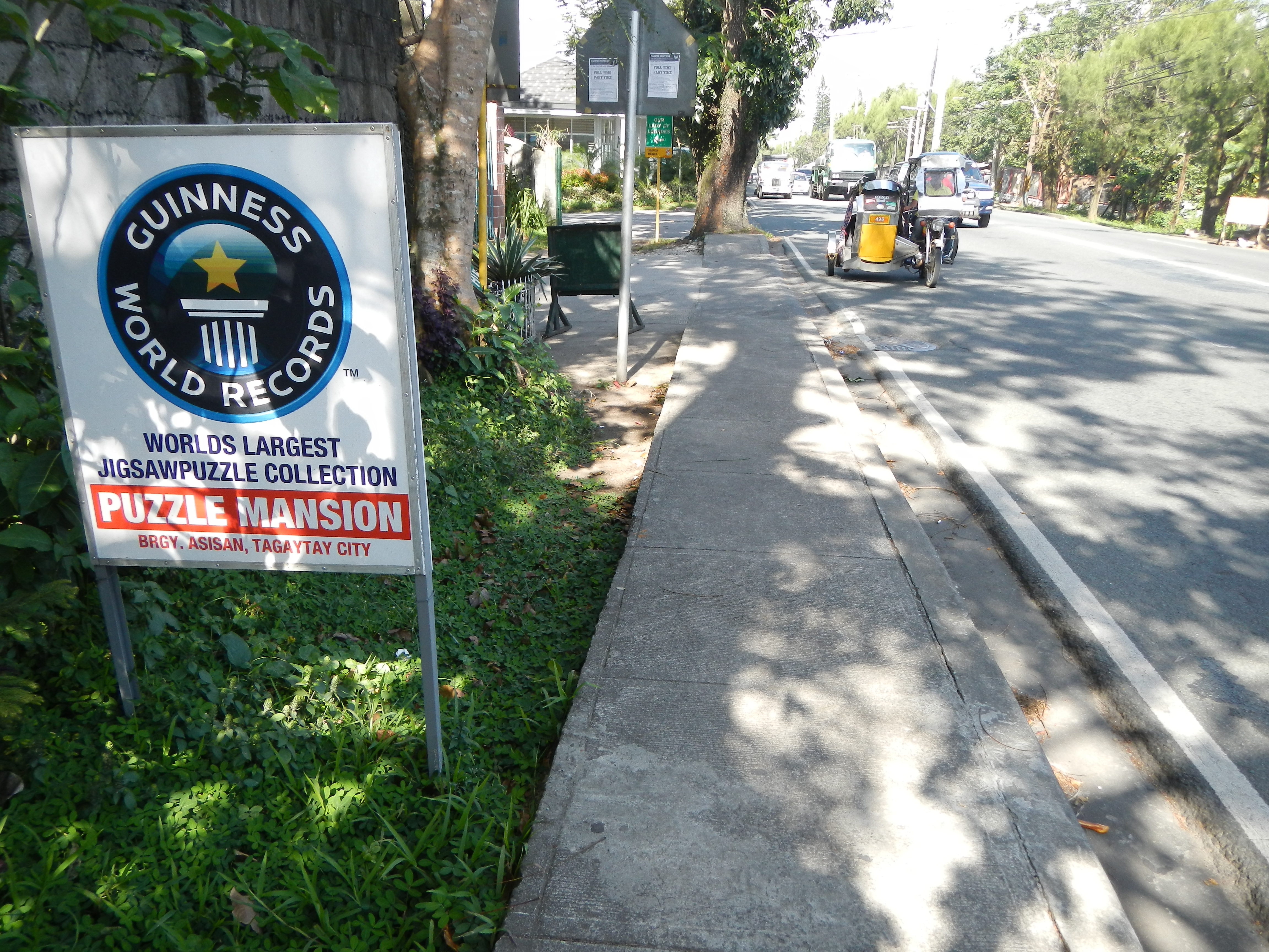 Upload Wizard photos of - Tagaytay[1] City of Tagaytay - the Landmark, Heritage, Cultural tourist spot and pilgrimate site - the 1940 Our Lady of Lourdes Parish Church of Tagaytay (under the Capuchin Franciscans, a place of Healing and Pilgrimage.is preparing for its Diamond or 75th Anniversary - it belongs to the Roman Catholic Diocese of Imus [2], Vicariate of The Seven Archangels Tagaytay City, Mendez, Indang, Amadeo, Alfonso, and General Aguinaldo; Vicar Forane: Rev Fr. Luisito C. Gatdula Vicarial Representative: Rev. Fr. Hermenegildo M. Asilo) - Tagaytay[3] City of Tagaytay - Scenery - along Aguinaldo Highway corner Lourdes Drive st. - in front slightly is the Poveda House of Prayer, which is in front also of the vast grass fields, or pasture beside the Canossa House of Spirituality overlooking the panoramics, landscape view of the - Tagaytay[4] City of Tagaytay, and its neighbor towns, including Taal Lake, Taal Volcano and the Mountains.